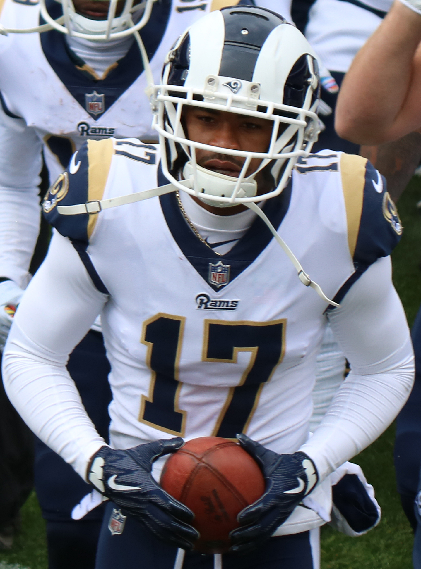 Robert Woods, a National Football League player.